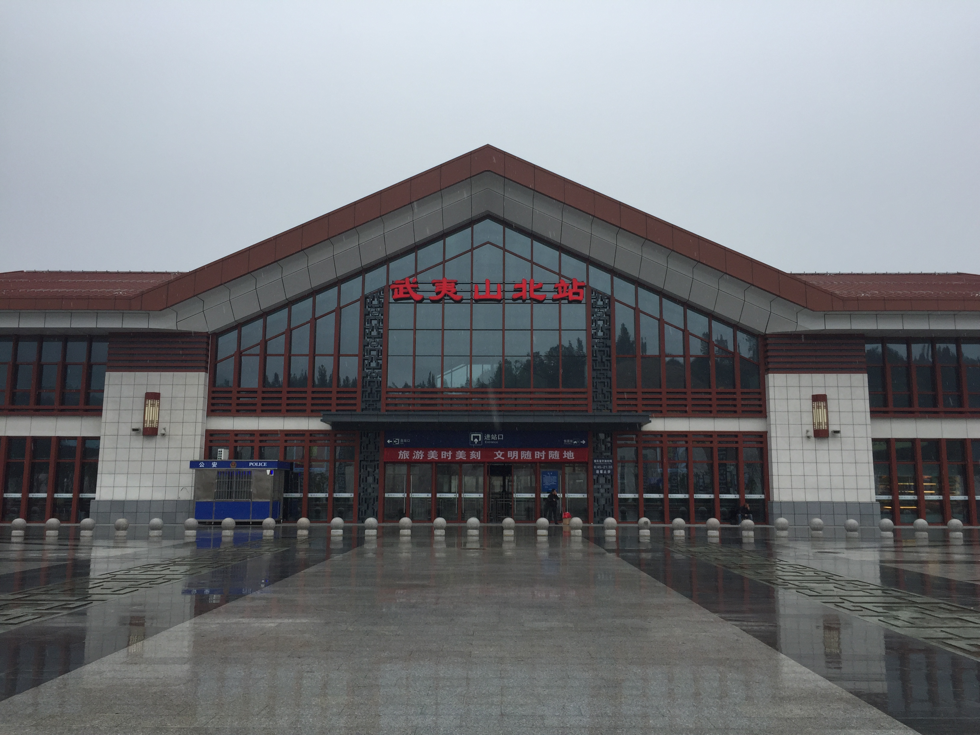 Official or not? Taken in the rain.